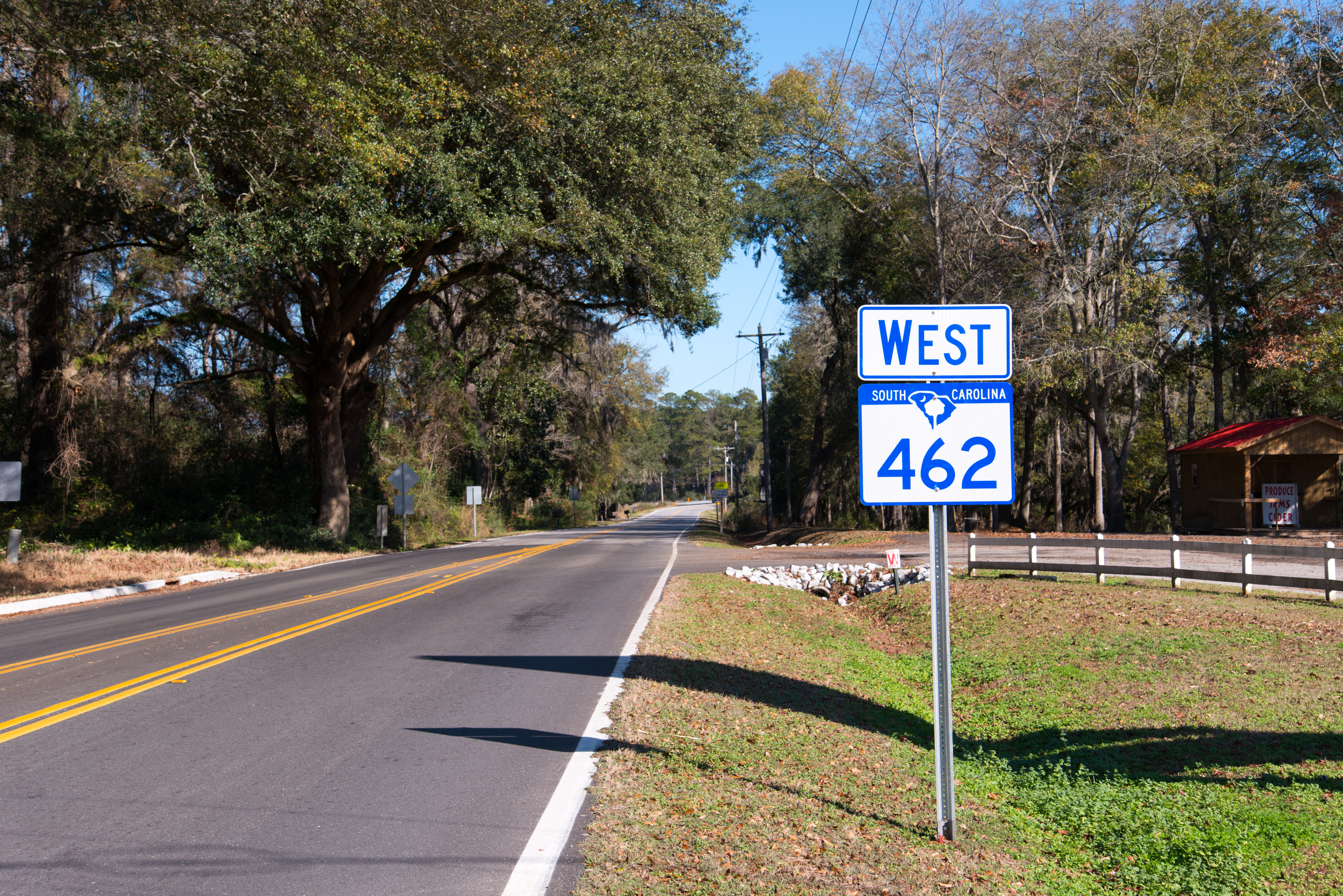 South Carolina Highway 462 West sign along Coosaw Scenic Highway, located in Old House, South Carolina.